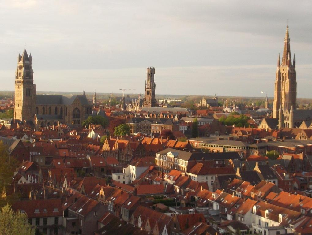 Brugge view on the center of the city